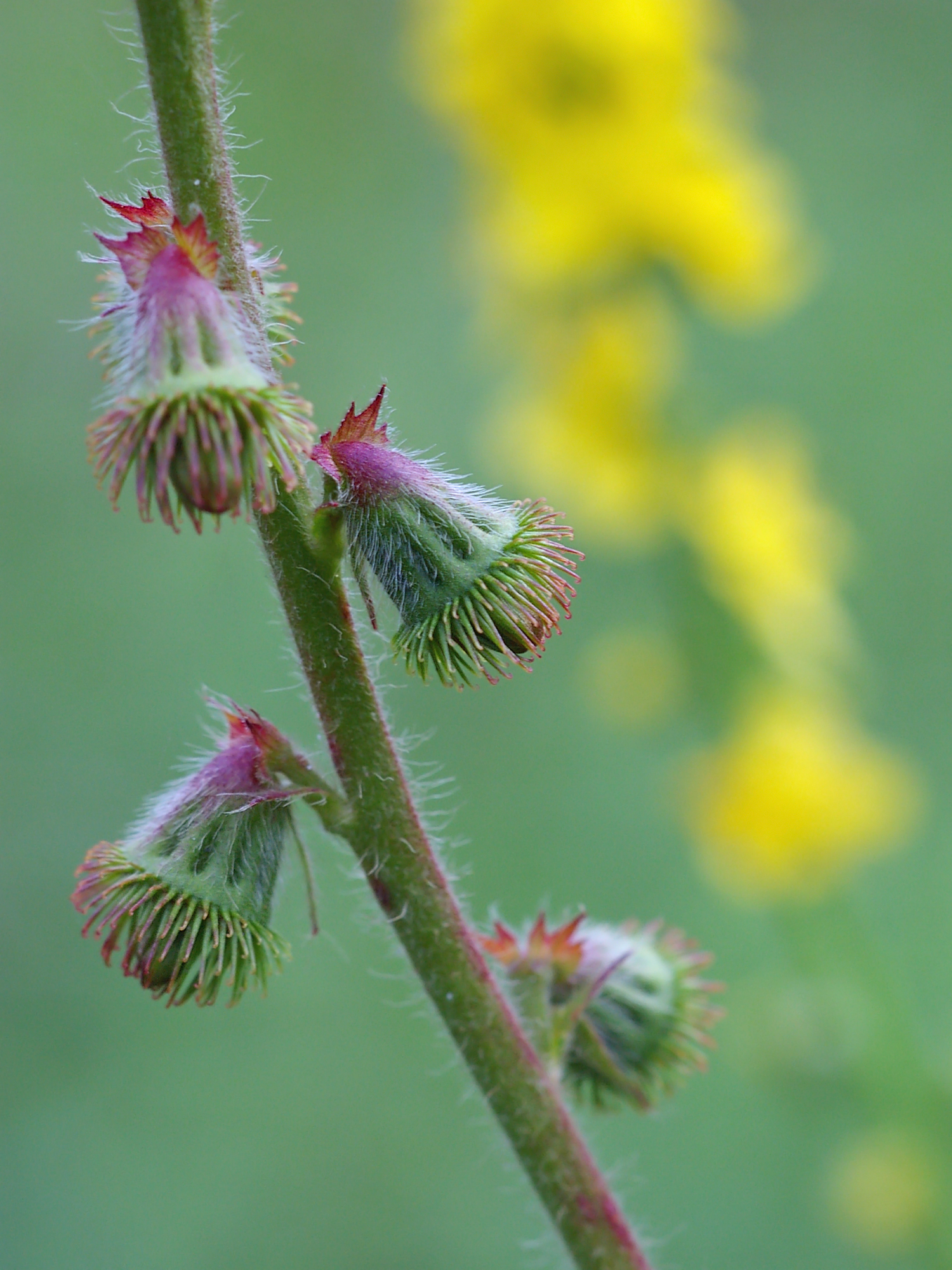 Fruits of Agrimonia eupatoria (in the background a flowering plant).